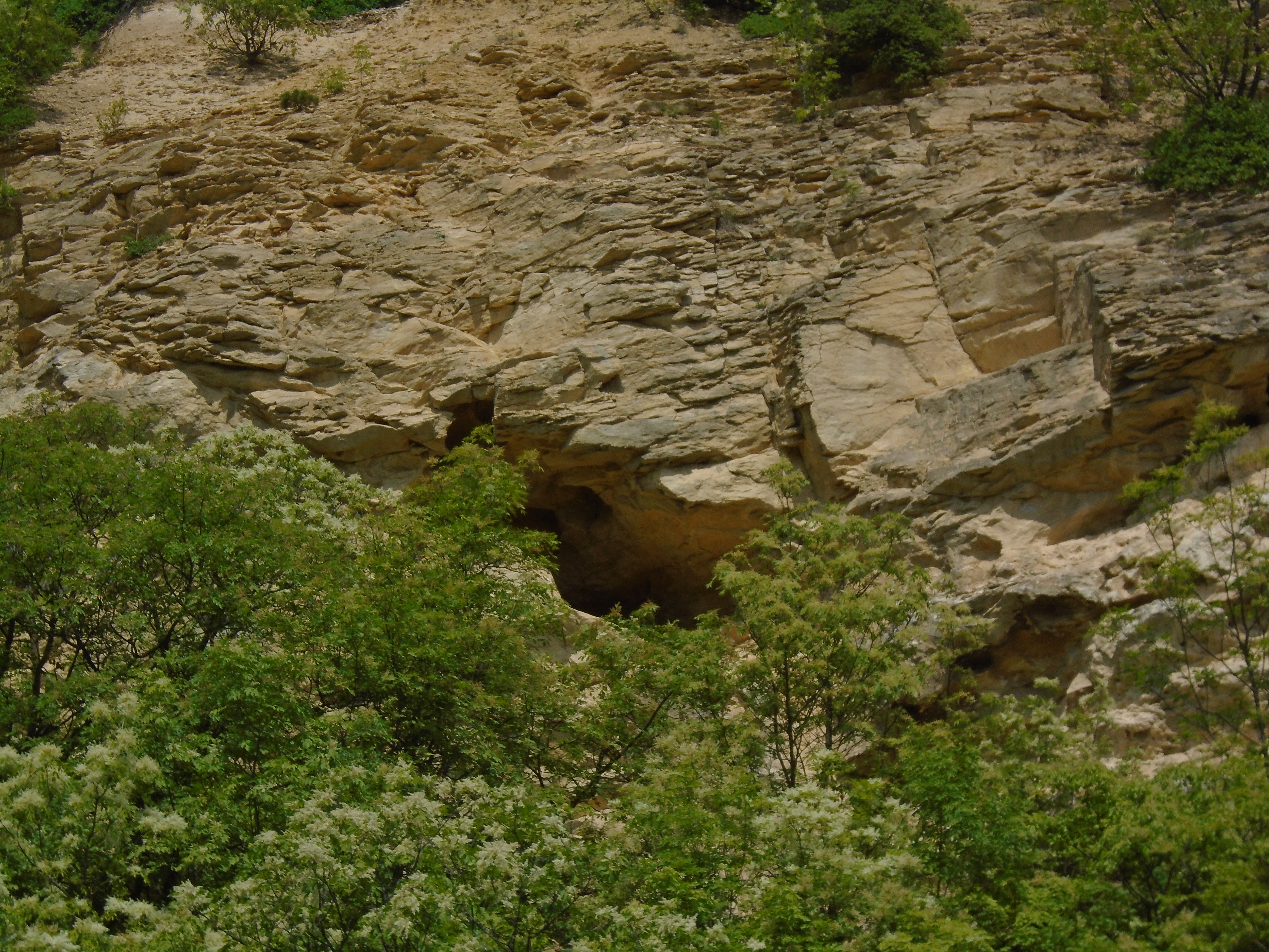 Entrance of Keleti quarry No 3 Cave.